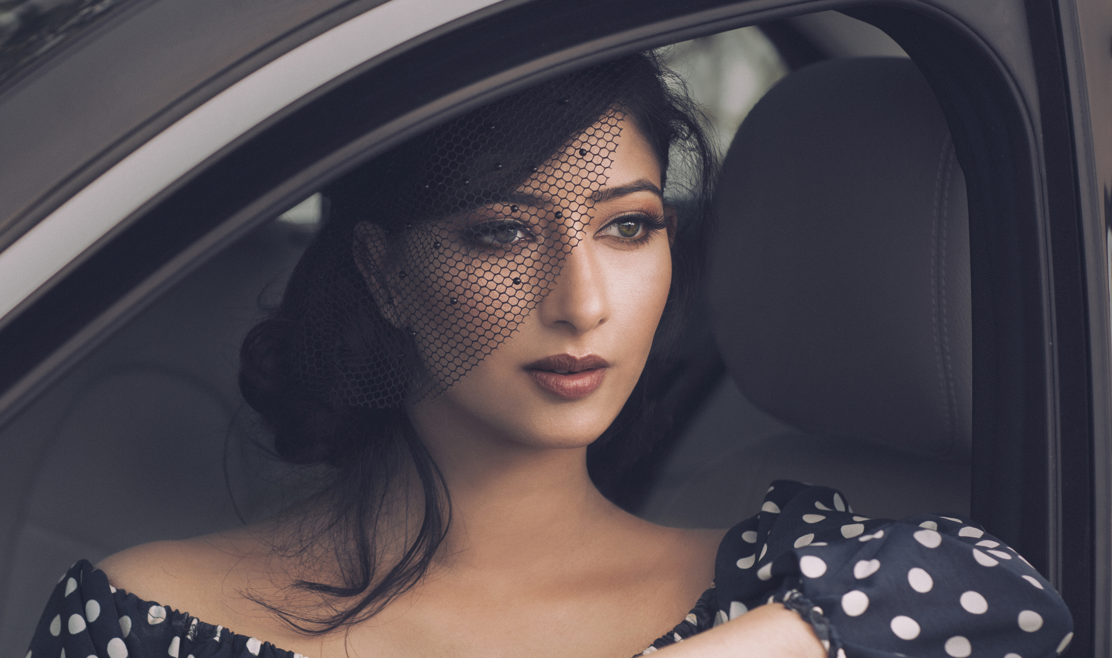 French shoot